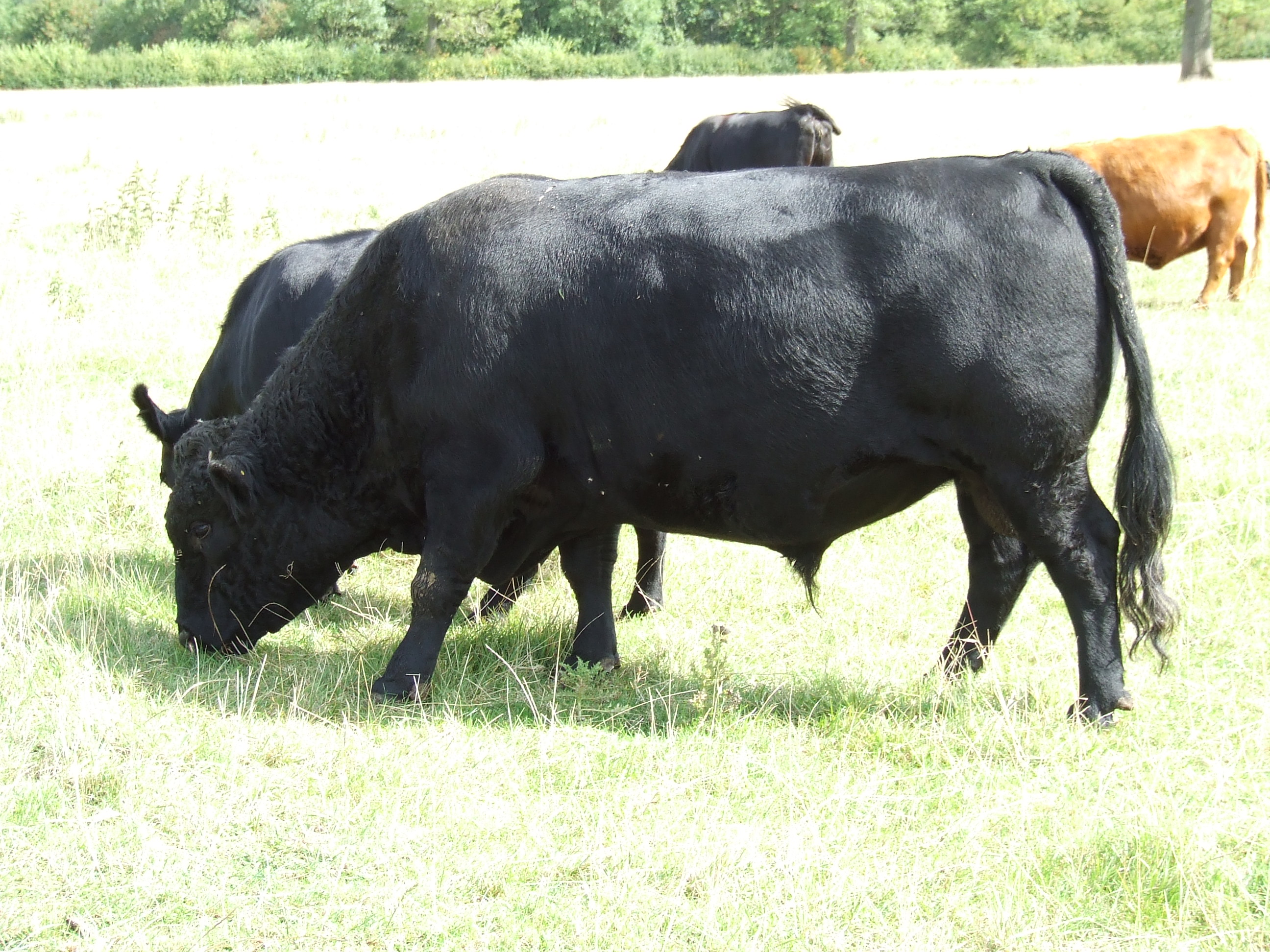 Dexter Bull. Brambledel Frodo. Linear assessed EX90